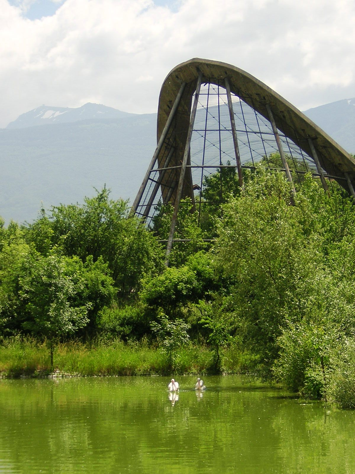 The Bird Cage and Pelican Pond of Sofia Zoo. In the background the Vitosha mountains with the peak Golyam Rezen.